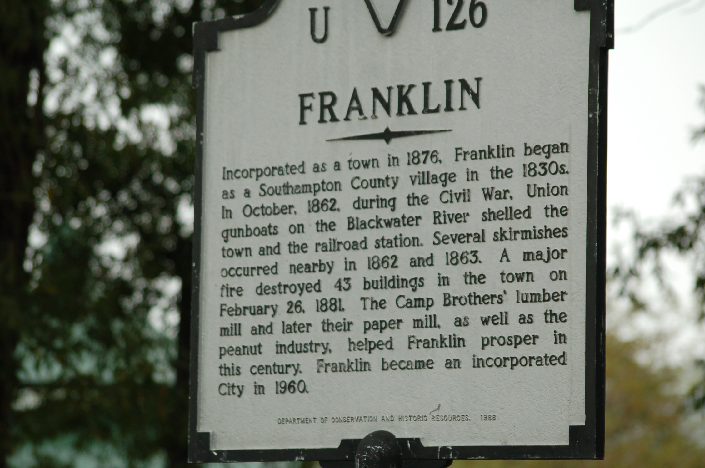 This picture was taken by my father, and given to me. I release it to the public domain. I will find the tag for that later.Chris Kreider 21:57, 7 November 2006 (UTC)